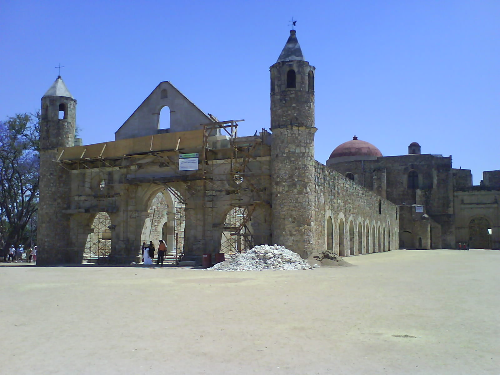 Photograph that shows restauration in Cuilapan Temple; Oaxaca, México. (also known as Cuilapam) March - 2008